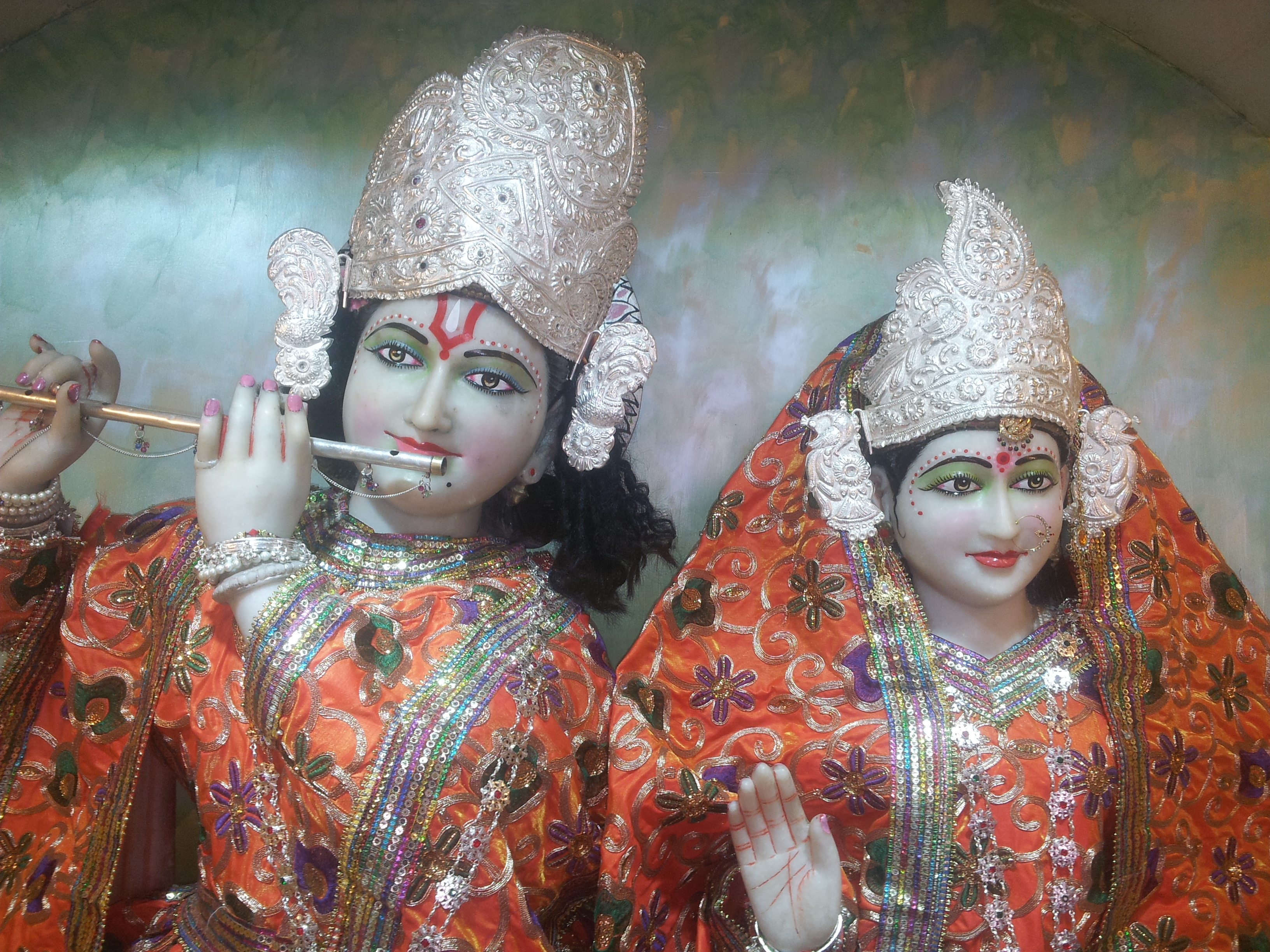 Shri Radhe Krishna at Mandir Thakur Shri Saty Narayan Ji.